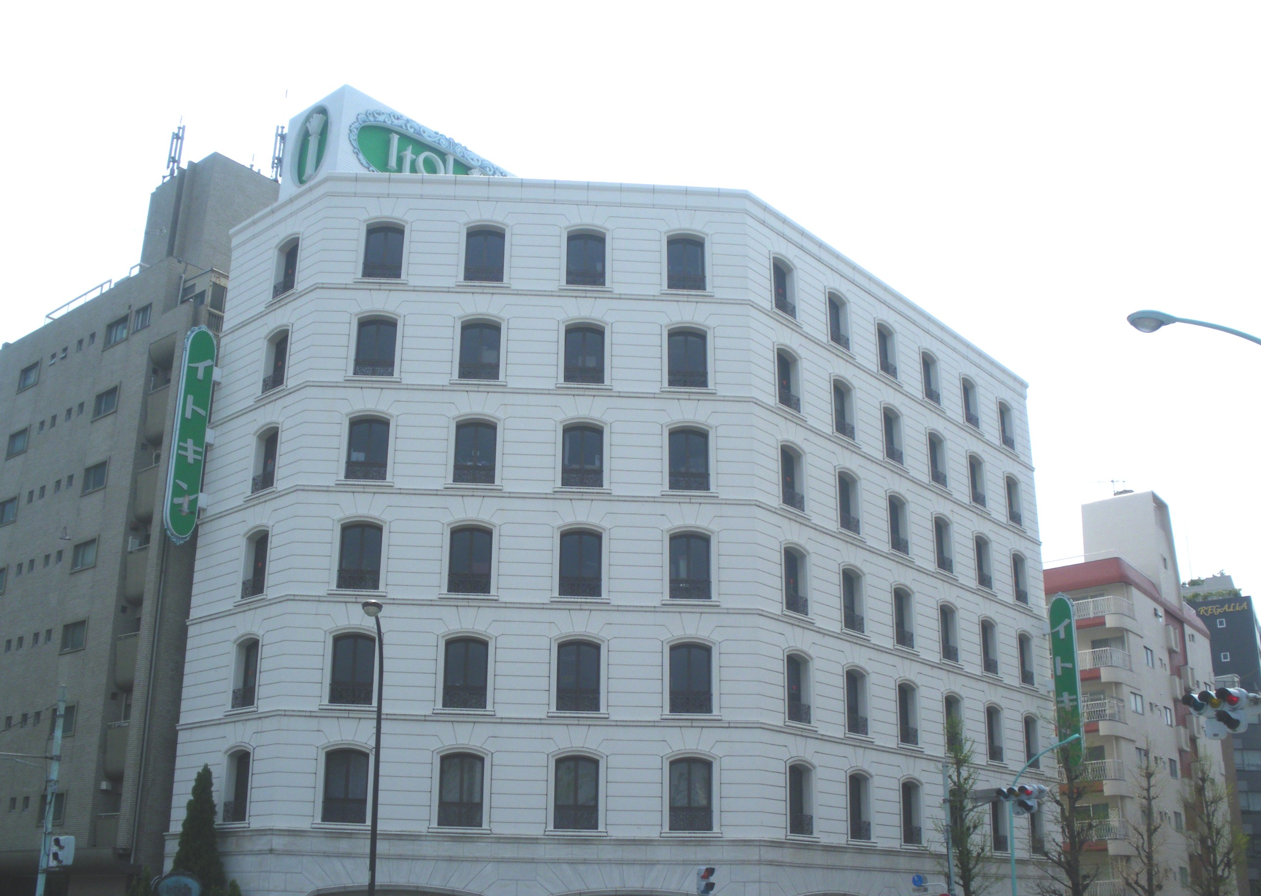 Itokin head office(Jingumae,Shibuya ward,Tokyo)